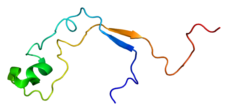 Structure of the MLL protein. Based on PyMOL rendering of PDB 2j2s.